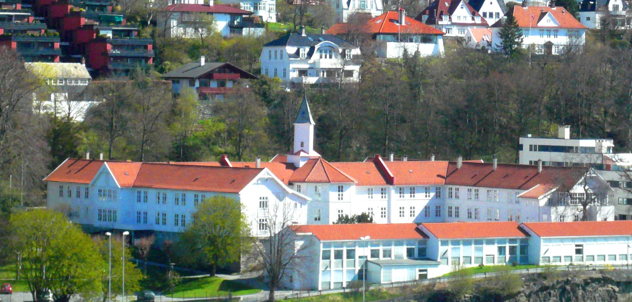 Pleiestiftelsen, Bergen, Norway